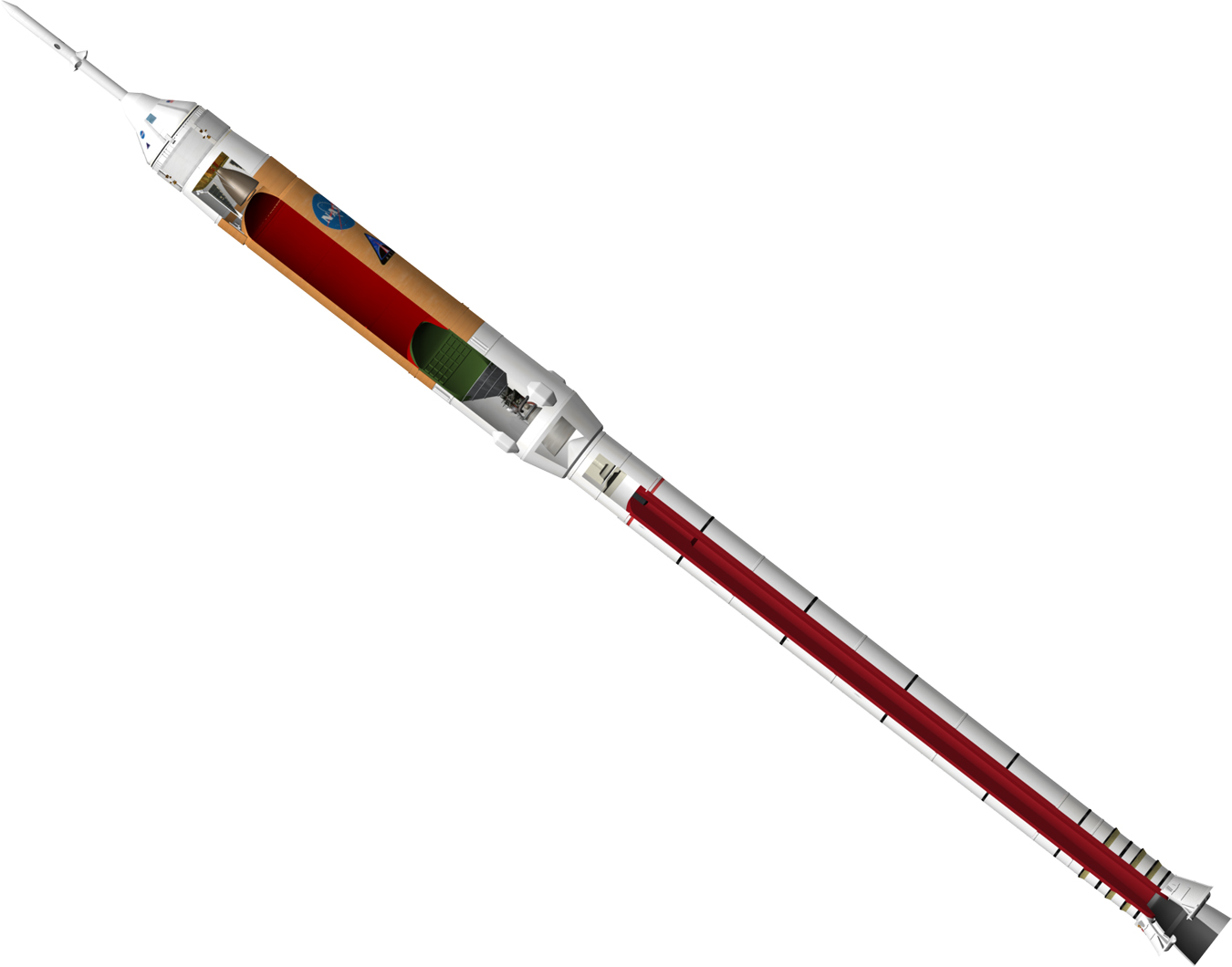 This is the Ares I concept. You can see the interior of the rocket.